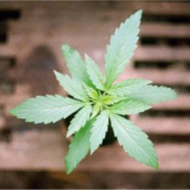 This is an unusual cannabis plant with three leaves instead of the usual two leaves